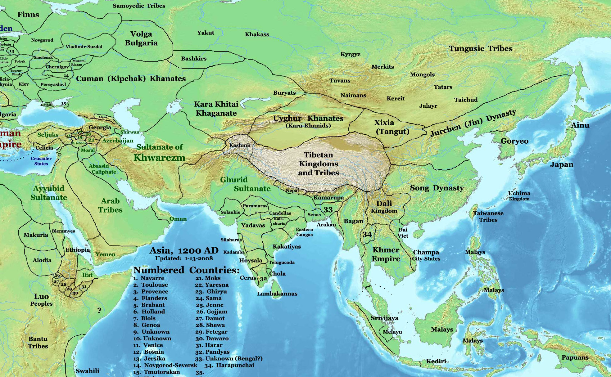 This image is a zoomed-in version of Eastern Hemisphere in 1200 AD. thumb|300px|left|Eastern Hemisphere in 1200 AD. Author: Thomas A. Lessman. Source URL: Image was created by me (Thomas Lessman) based on map of Eastern Hemisphere in 1200AD. Image is free for public and/or educational use. I would appreciate a mention if this image is used elsewhere. If anyone is interested in helping further this work, please contact Thomas Lessman at . Other Historical Maps by Thomas Lessman 1. en: 500 BC. 2. en: 323 BC. 3. en: 200 BC. 4. en: 100 BC. 5. en: 050 BC. 6.en: 001 AD. 7. en: 050 AD. 8. en: 100 AD. 9. en: 200 AD. 10. en: 300 AD. 11. en: 400 AD. 12. en: 475 AD. 13. en: 476 AD. 14. en: 477 AD. 15. en: 500 AD. 16. en: 565 AD. 17. en: 600 AD. 18. en: 700 AD. 19. en: 800 AD. 20. en: 900 AD. 21. en: 1025 AD. 22. en: 1100 AD. 23. en: 1200 AD.